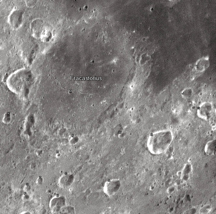 Fracastorius lunar crater as seen from Earth with satellite craters labeled